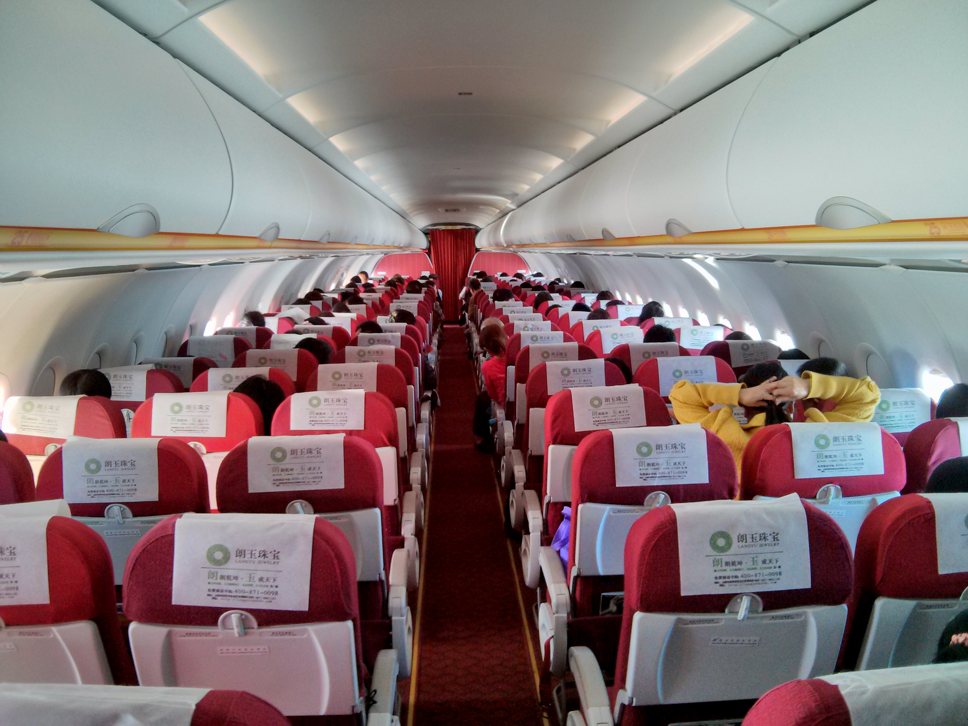 Lucky Air Airbus A320-200 economy class cabin domestic flight KMG-SYX in November 2013.